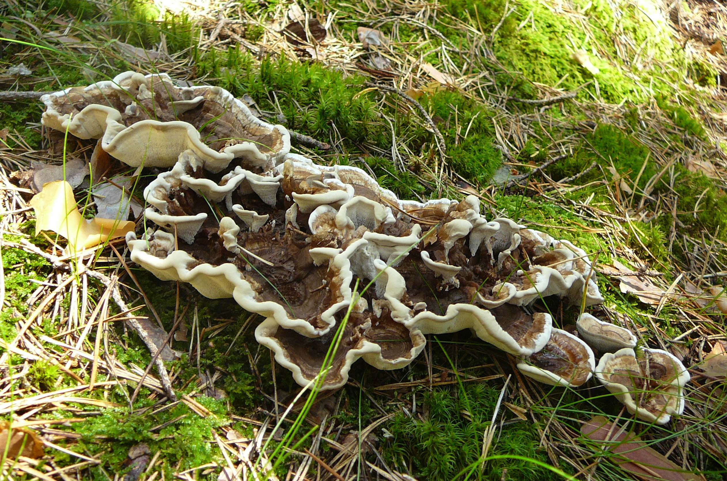 Phellodon tomentosus, near Bečov nad Teplou / Petschau, Slavkovský les / Kaiserwald, West Bohemia, the Czech republic